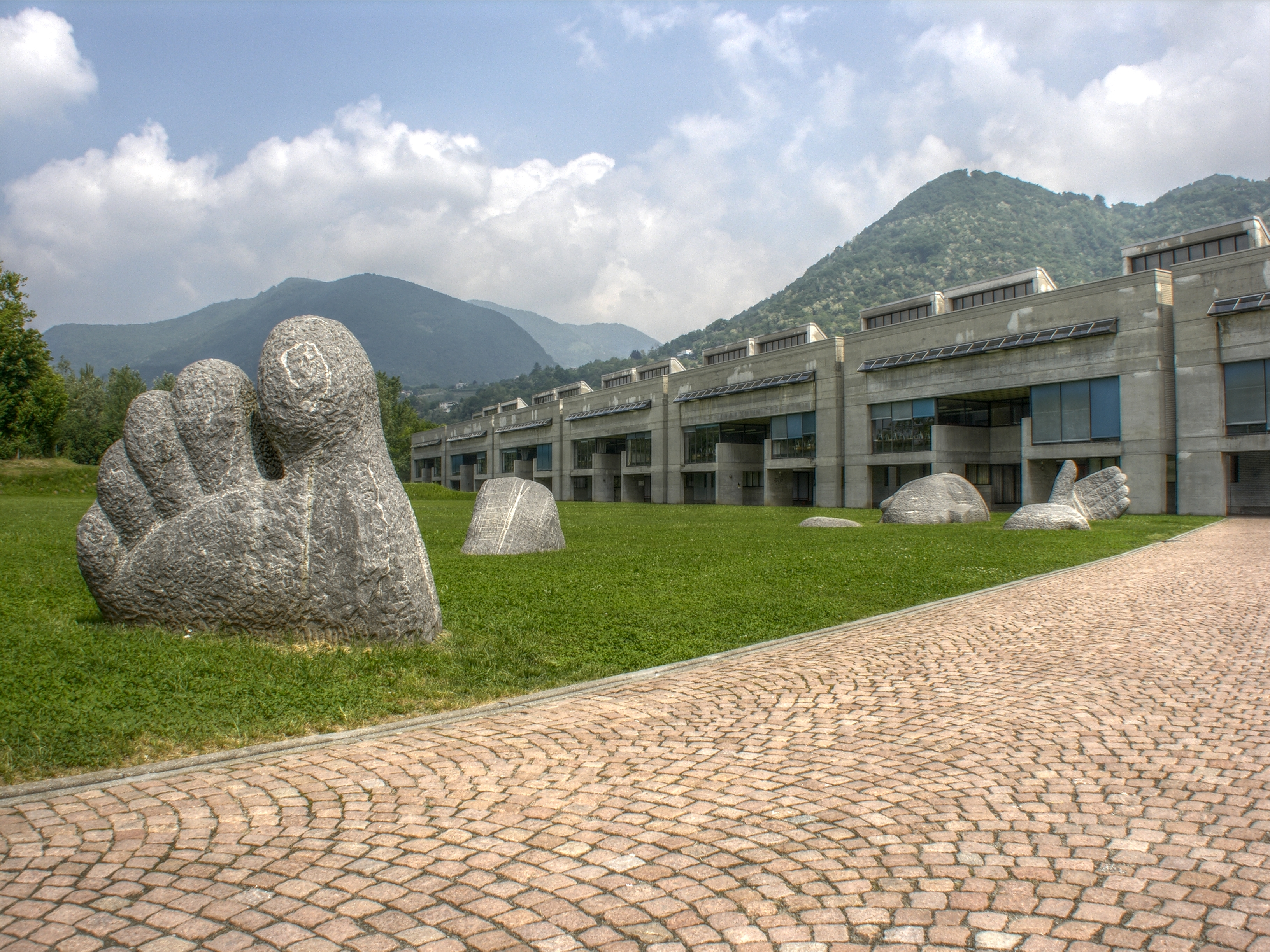 Morbio Inferiore, Tessin, Switzerland, School - The Pierino Selmoni sculpture